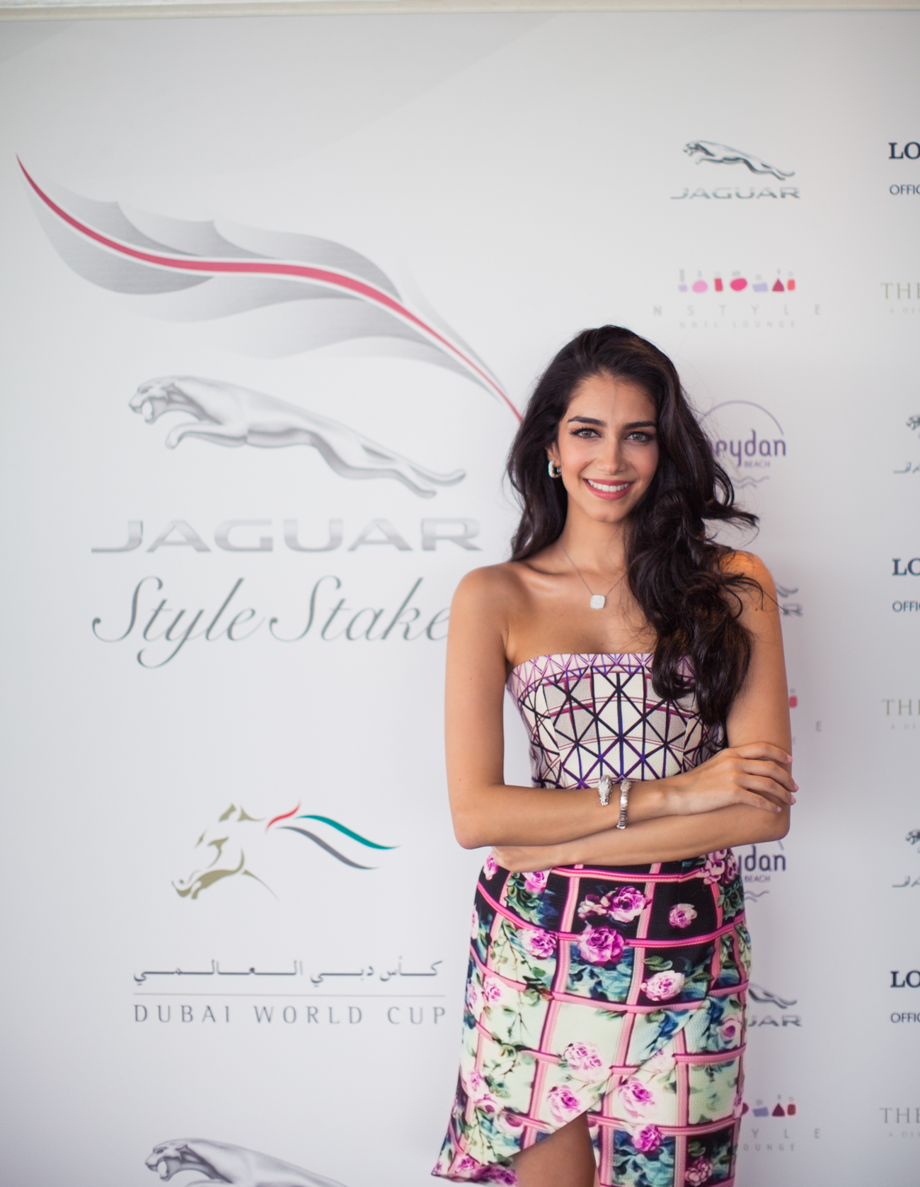 Luxury car brand Jaguar, along with its Style Stakes judging panel, revealed their secrets to the winning fashion formula at an exclusive Dubai World Cup preview evening. Jaguar took the opportunity to announce its new Style Stakes Judges at the exclusive event, named as Jessica Kahawaty, Alanoud Badr and Joelle Mardinian. Dubai’s fashion elite were then given a sneak preview of what the expert panel of judges will be looking for at this year’s Jaguar Style Stakes, which will take place on March 29th as part of the Dubai World Cup